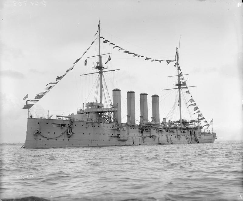 Photograph of British armoured cruiser HMS Sutlej.